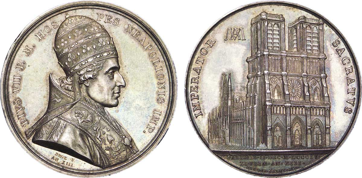 Médaille célébrant le sacre de Napoléon Ier par Pie VII Date : An 13 (1804-1805) Description avers : Buste de Pie VII à droite, coiffé de la tiare et vêtu de la chasuble à ses armes Description revers : vue de Notre-Dame de Paris